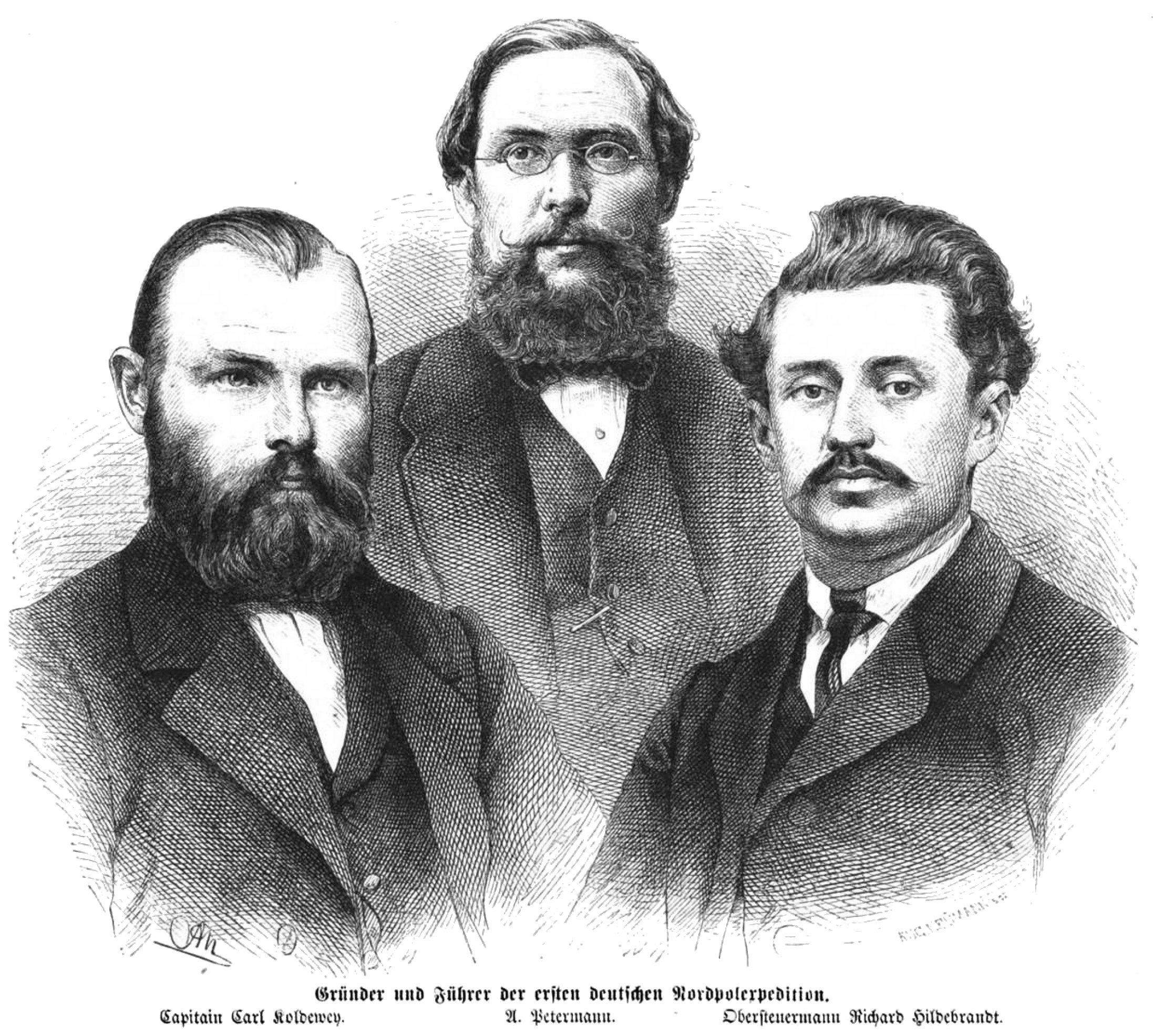 no caption